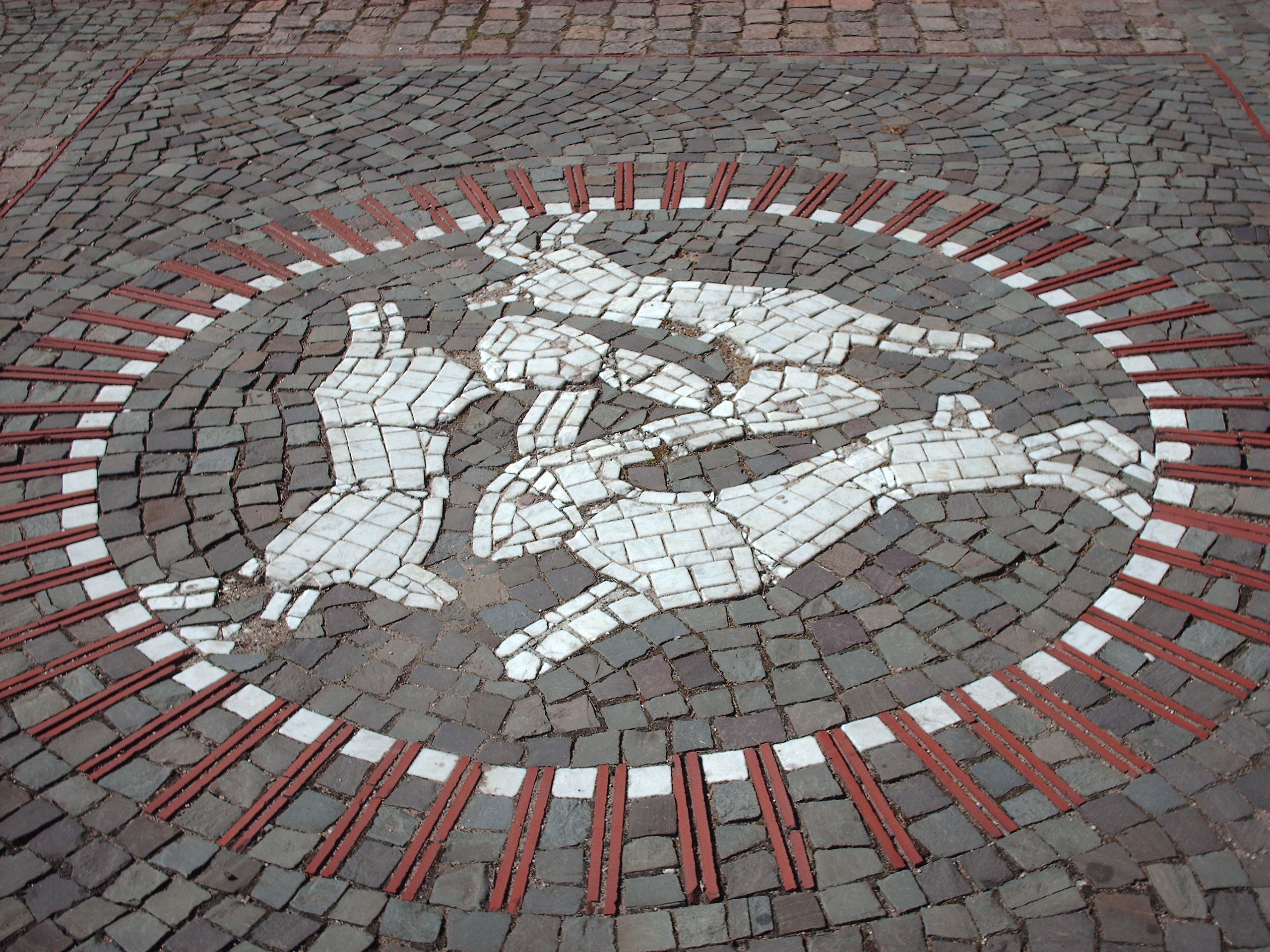 Three Hares, Kirchhundem, Germany check usage